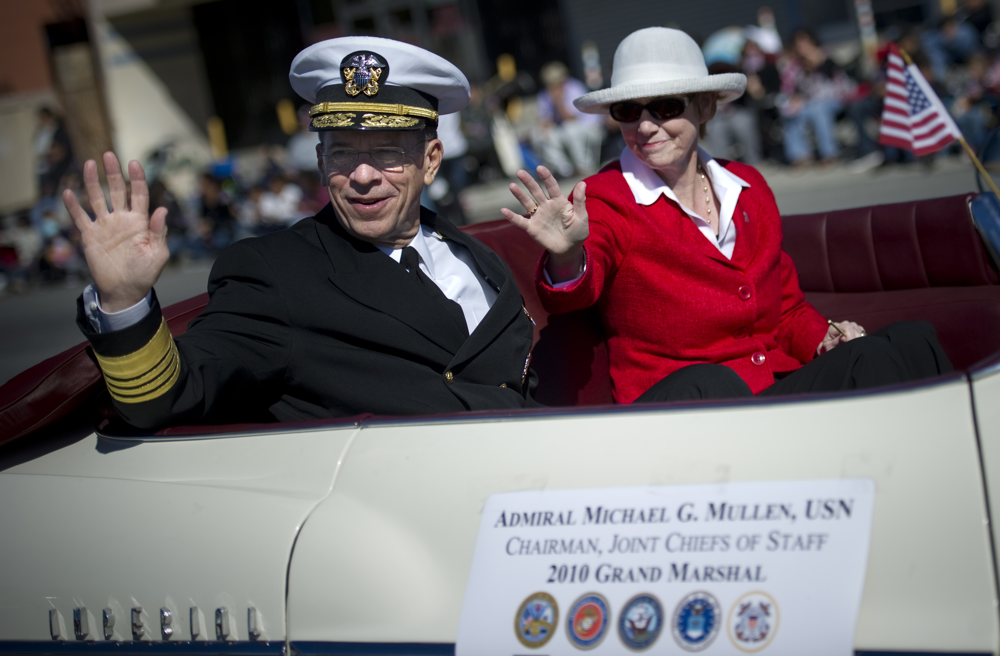 Chairman of the Joint Chiefs of Staff Adm. Mike Mullen, U.S. Navy, Grand Marshal of the 7th Annual San Fernando Valley Veteran's Day Parade, and his wife Deborah wave to parade attendees in Pacoima, Calif., on Nov. 11, 2010.